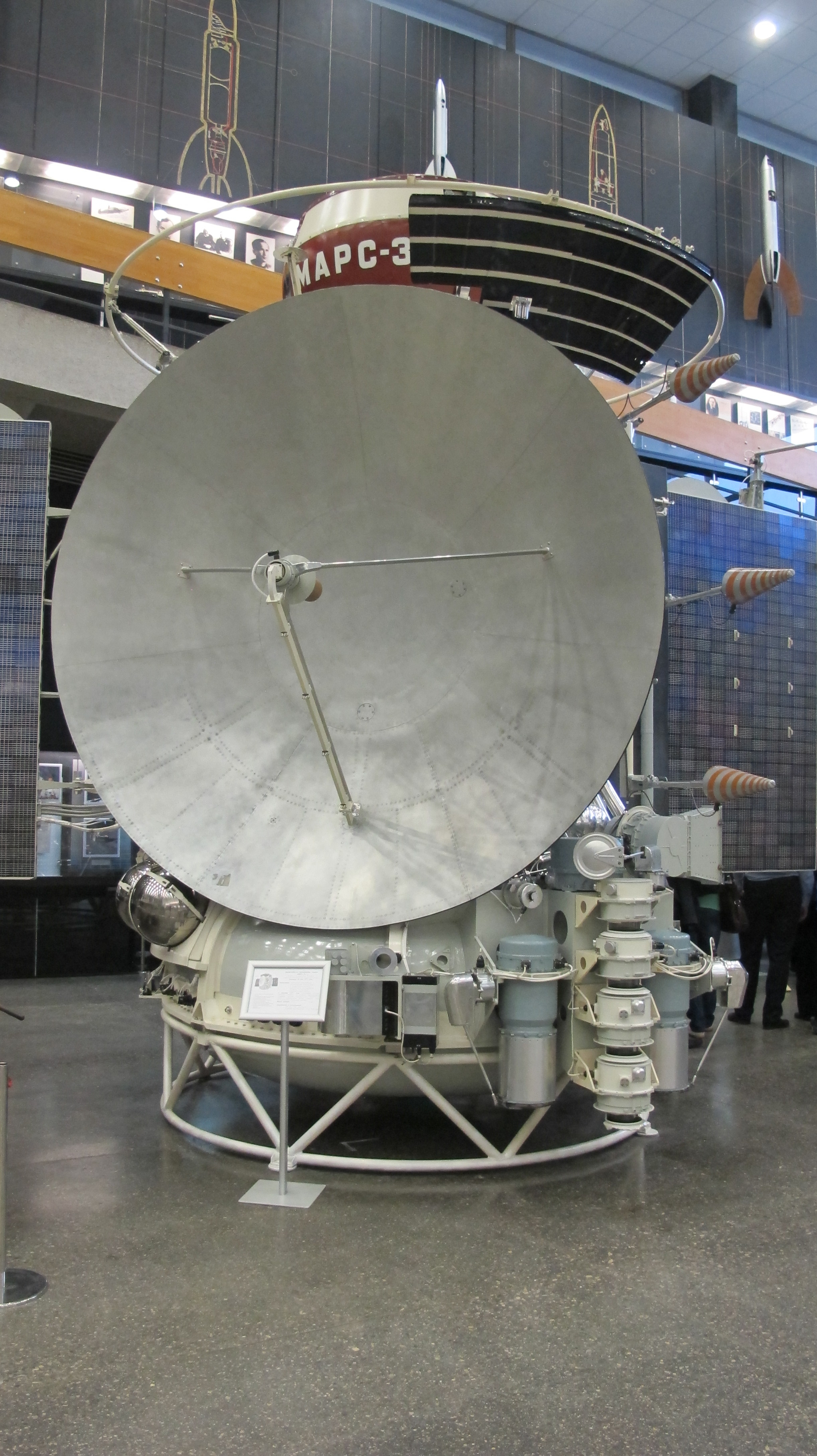 Wikiexpedition to Kaluga 2016-06-11.